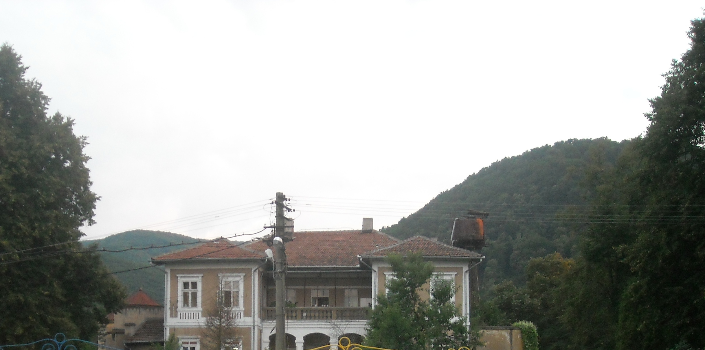 former manor house of the Jósika family in Brănișca (Branyicska), Hunedoara County, Romania